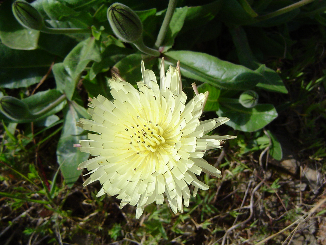 Urospermum dalechampii Ceuta, (Spain)